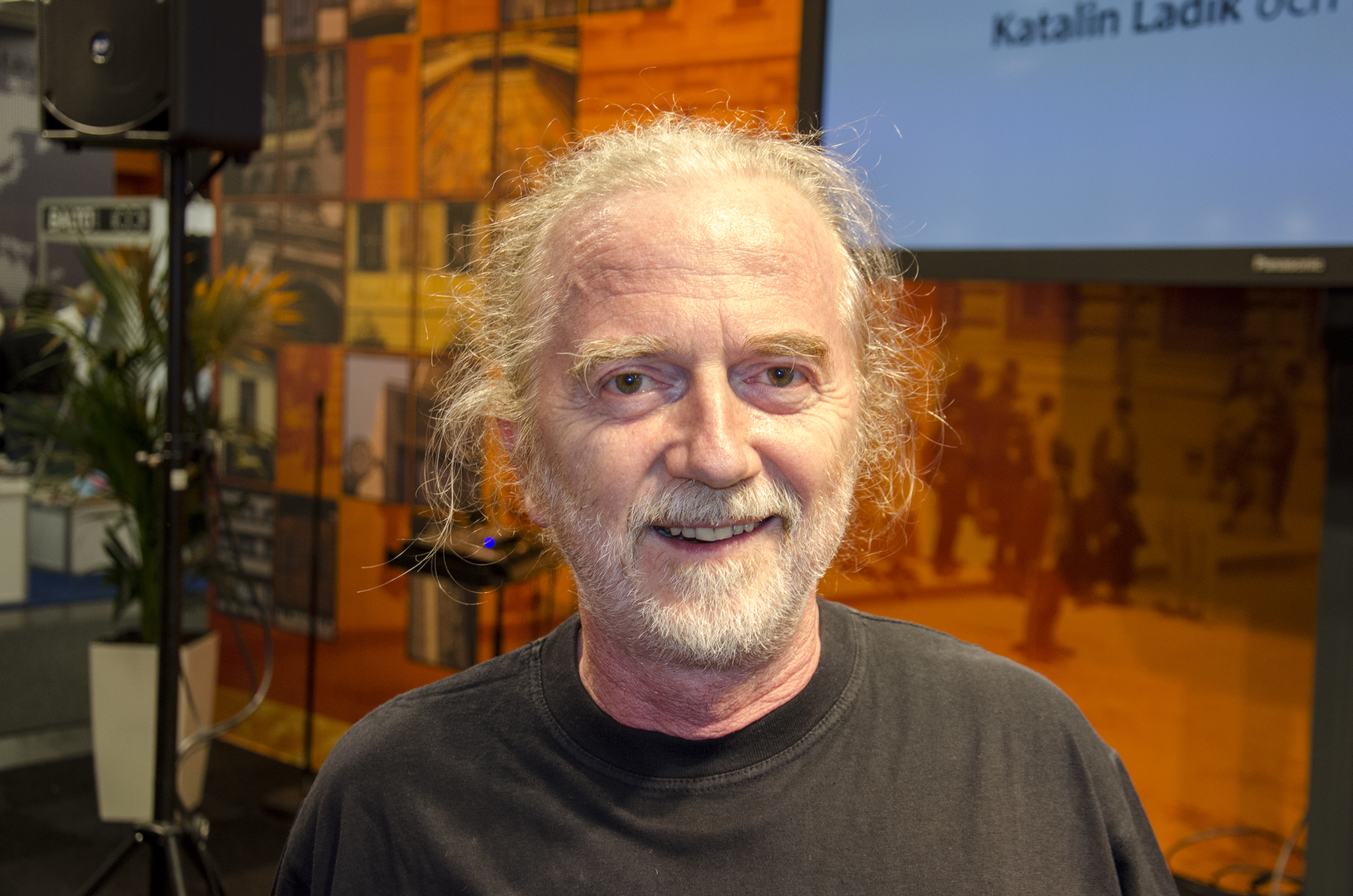 Endre Szkárosi at the Gothenburg Book Fair 2015.